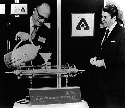 Argonne CEO Alan Schriesheim demonstrates high-temperature superconductivity to U.S. President Ronald Reagan in 1987